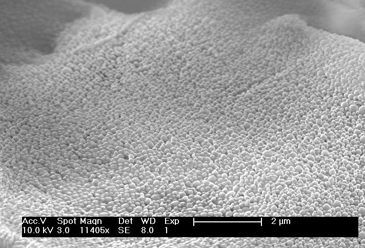 nanoparticle